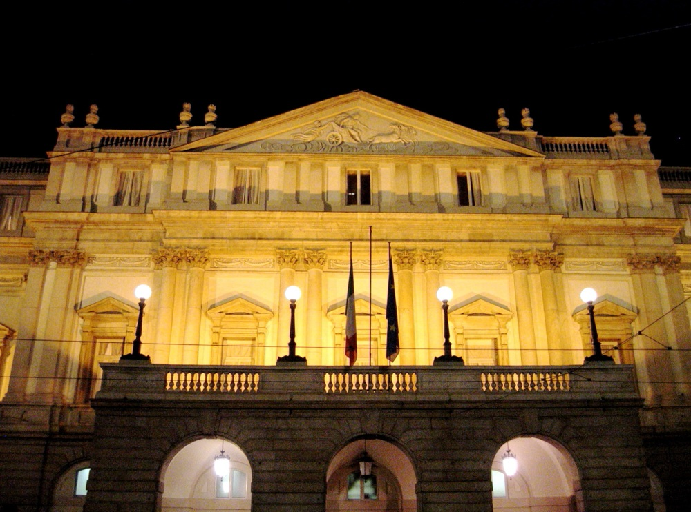 Teatro alla Scala by night, Milano, Italy.